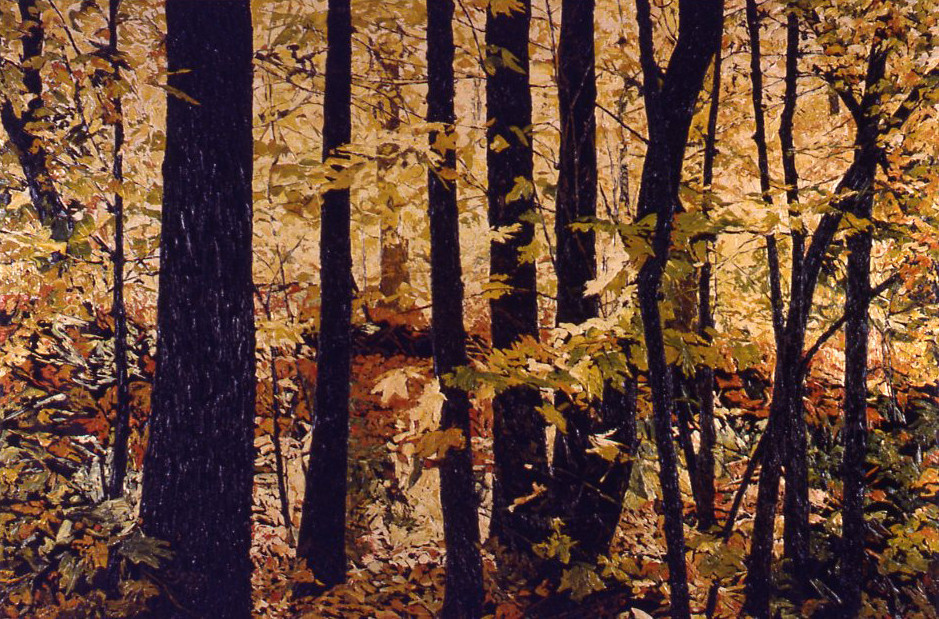 Jan Serr, Near the Stream, 1996. Oil on linen, 20 x 28 inches.